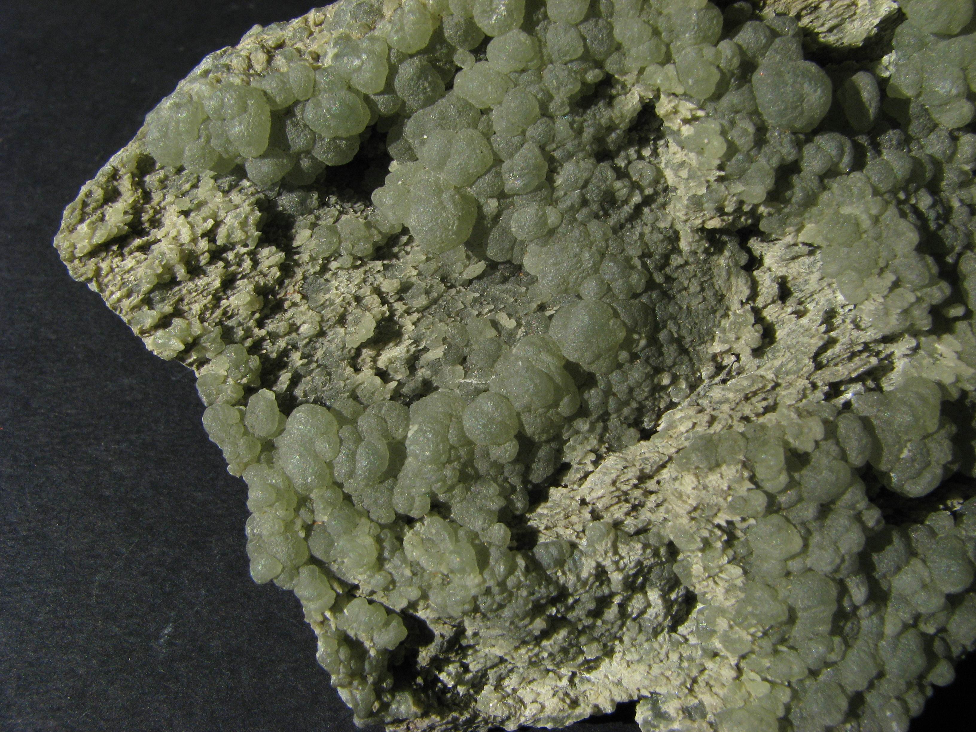 Talc, botryoidal - Genova, Liguria, Italy